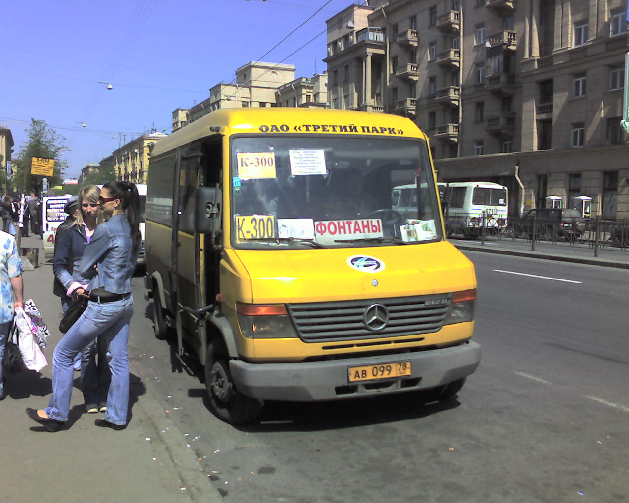 Bus Mercedes-Benz Vario OAO "Tretij Park".